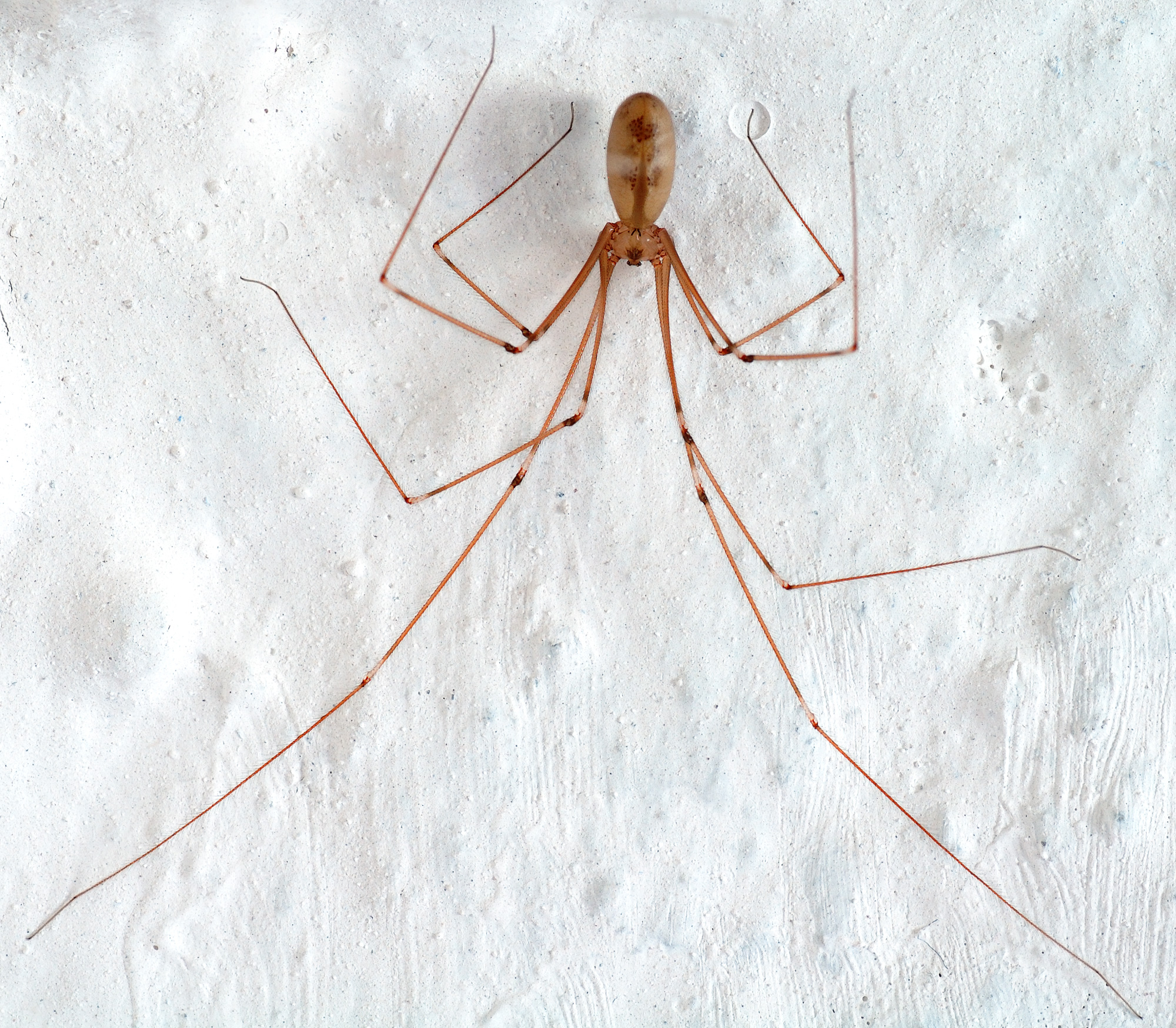 This image shows a Daddy long-legs (Pholcus phalangioides) with a body length of 0,23 inch.